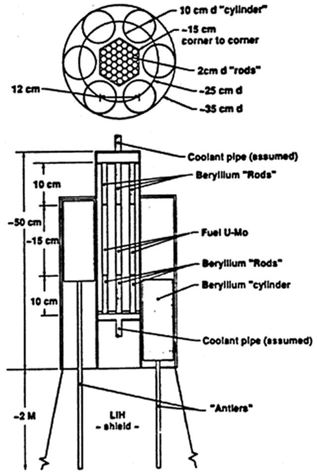 Cosmos-954 BES-5 type reactor scheme